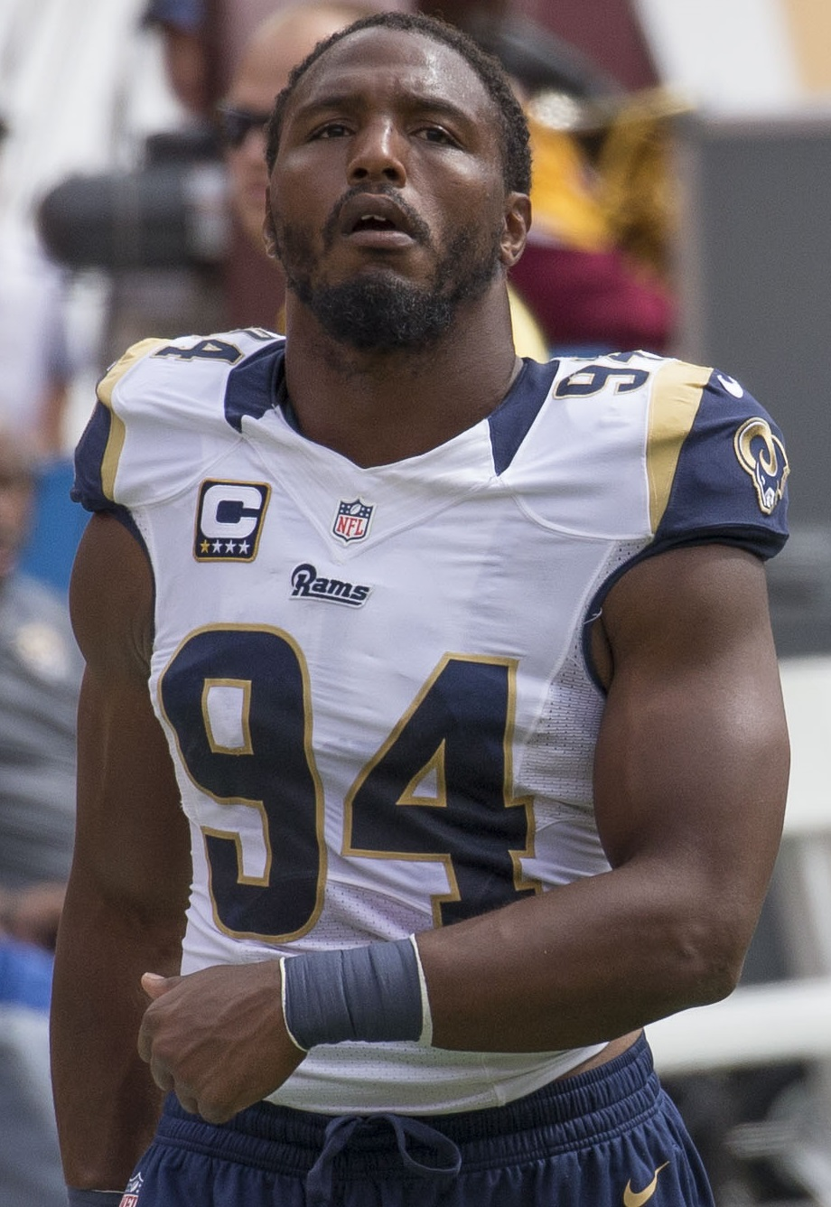 Rams at Redskins 9/20/15